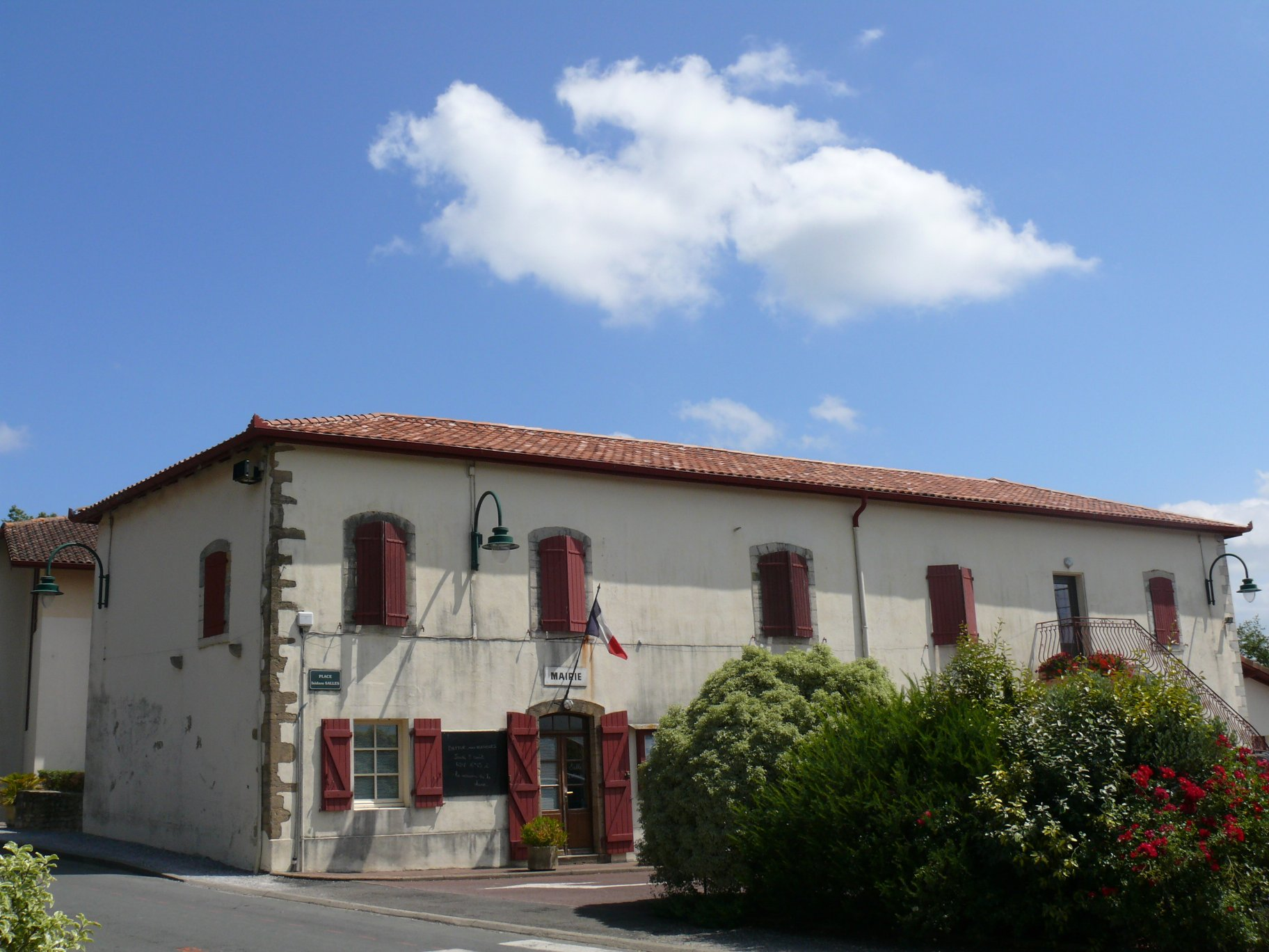 The townhall of Sainte-Marie-de-Gosse (Landes, Pyrénées-Atlantiques, France).